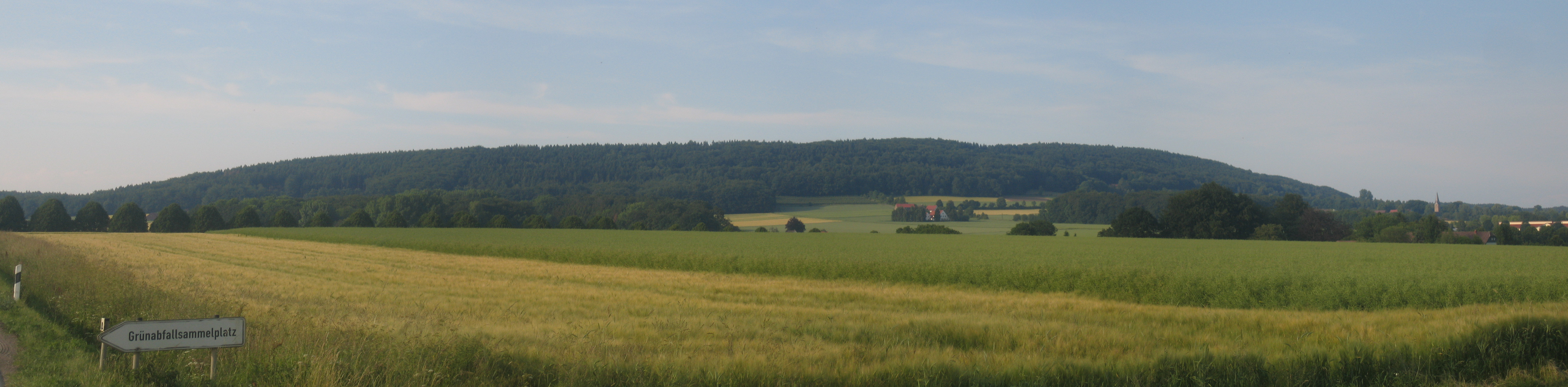 Nonnenstein mountain in Rödinghausen, District of Herford, North Rhine-Westphalia, Germany.